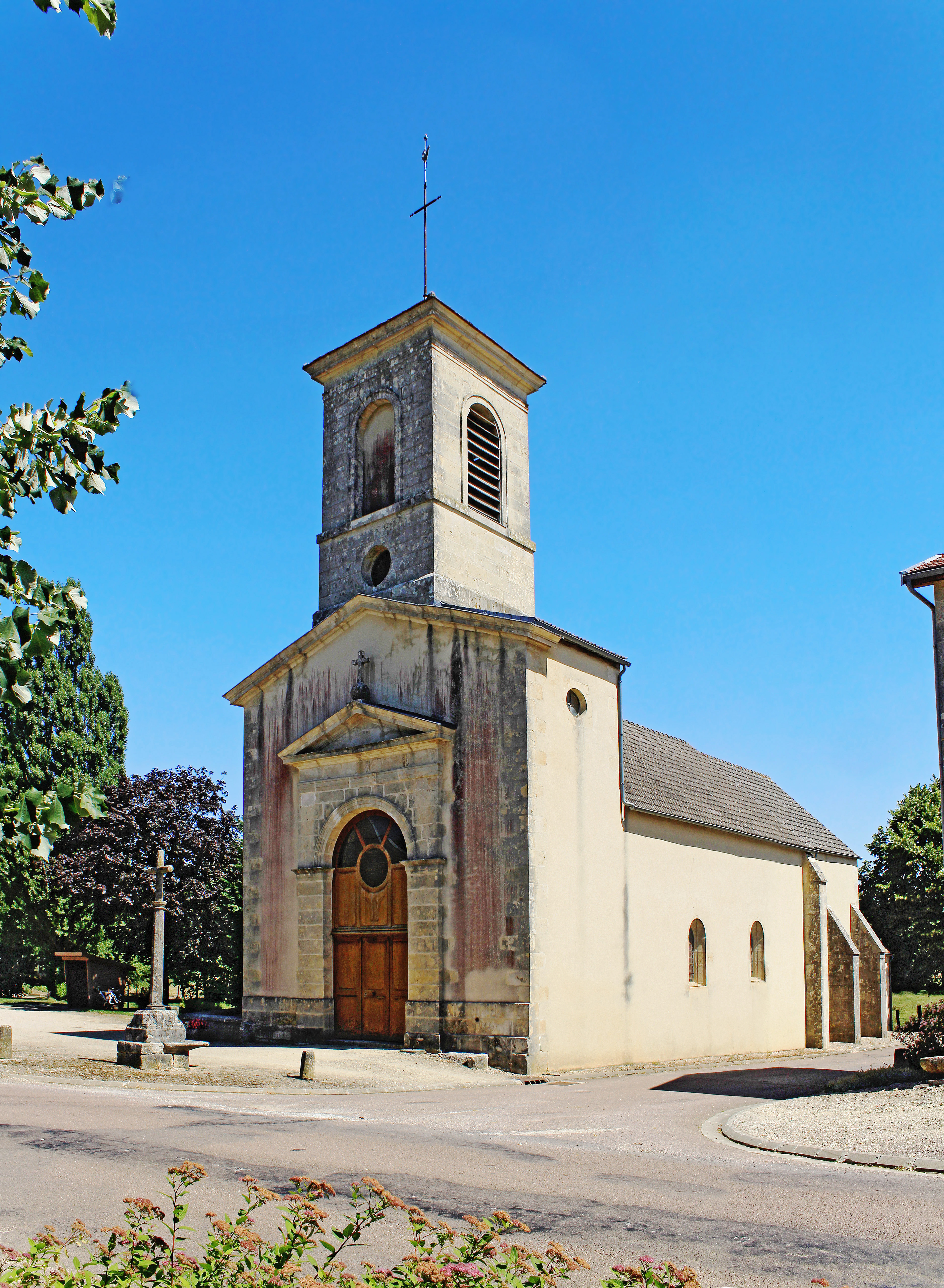 St Nazaire and St Celse church in la Villeneuve-les-Convers